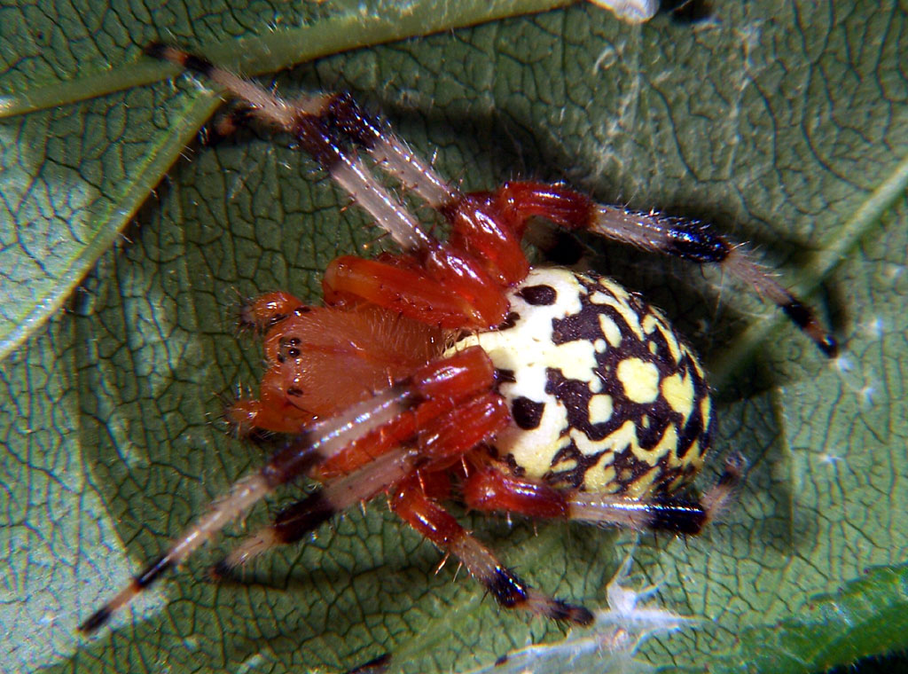 marbled orb weaver spider Araneus marmoreus - Location: Winfield IL